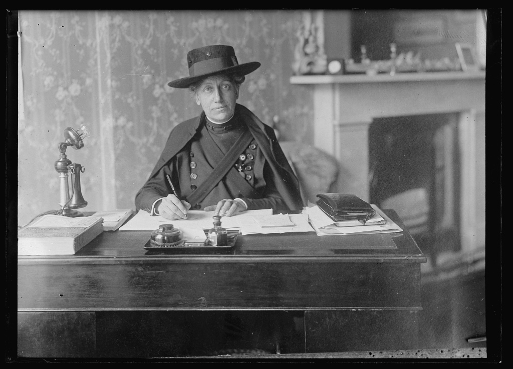 Miss Carrie M. Hall of Boston, Chief Nurse for the ARC in Great Britain at her desk in RC Headquarters, 40 Grosvenor Gardens, London. She is in charge of all the ARC nurses in the British Isles. Miss Hall was one of the first American nurses to come Europe after the declaration of war by the United States, being in command of the so-called "Harvard unit" which arrived in London in May 1917 and was immediately transferred to take over a large base hospital in the British Army zone in France. She was formerly Superintendent and Principal of the Nurses' Training School at the Peter Bent Brigham Hospital in Boston. She is a graduate of Columbia University